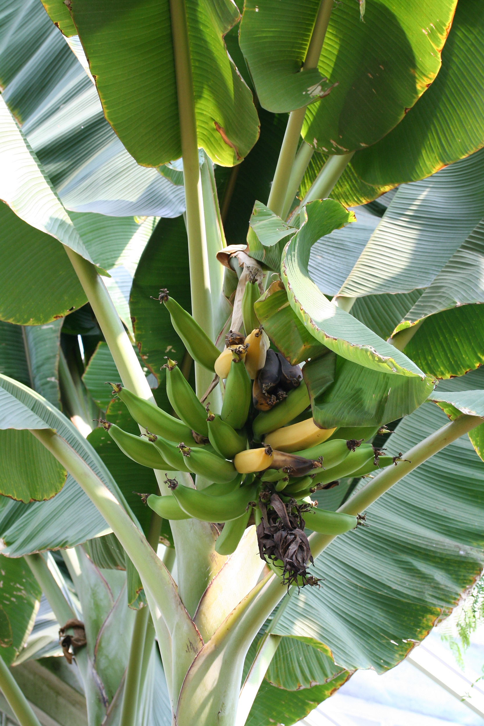 Meise (Belgium), National Botanic Garden of Belgium - Plant Palace - Musa (sp.) - Linnaeus 1753 - Musa (genus) - Banana tree.